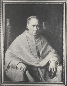 Paul Cullen (1803-1887)